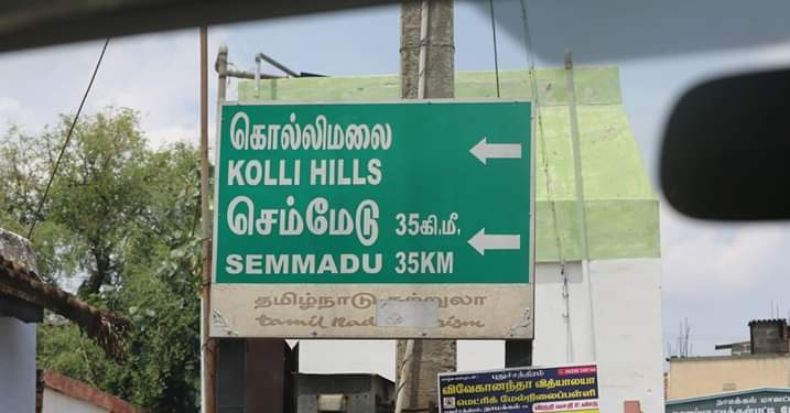 A signboard to kolli hills